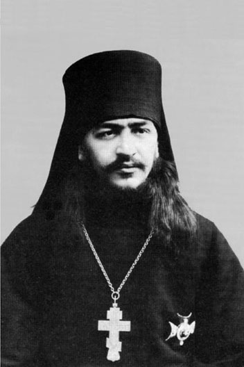 Nestor (Anisimov) in 1911, in future metropolitan of Russian Orthodox Church